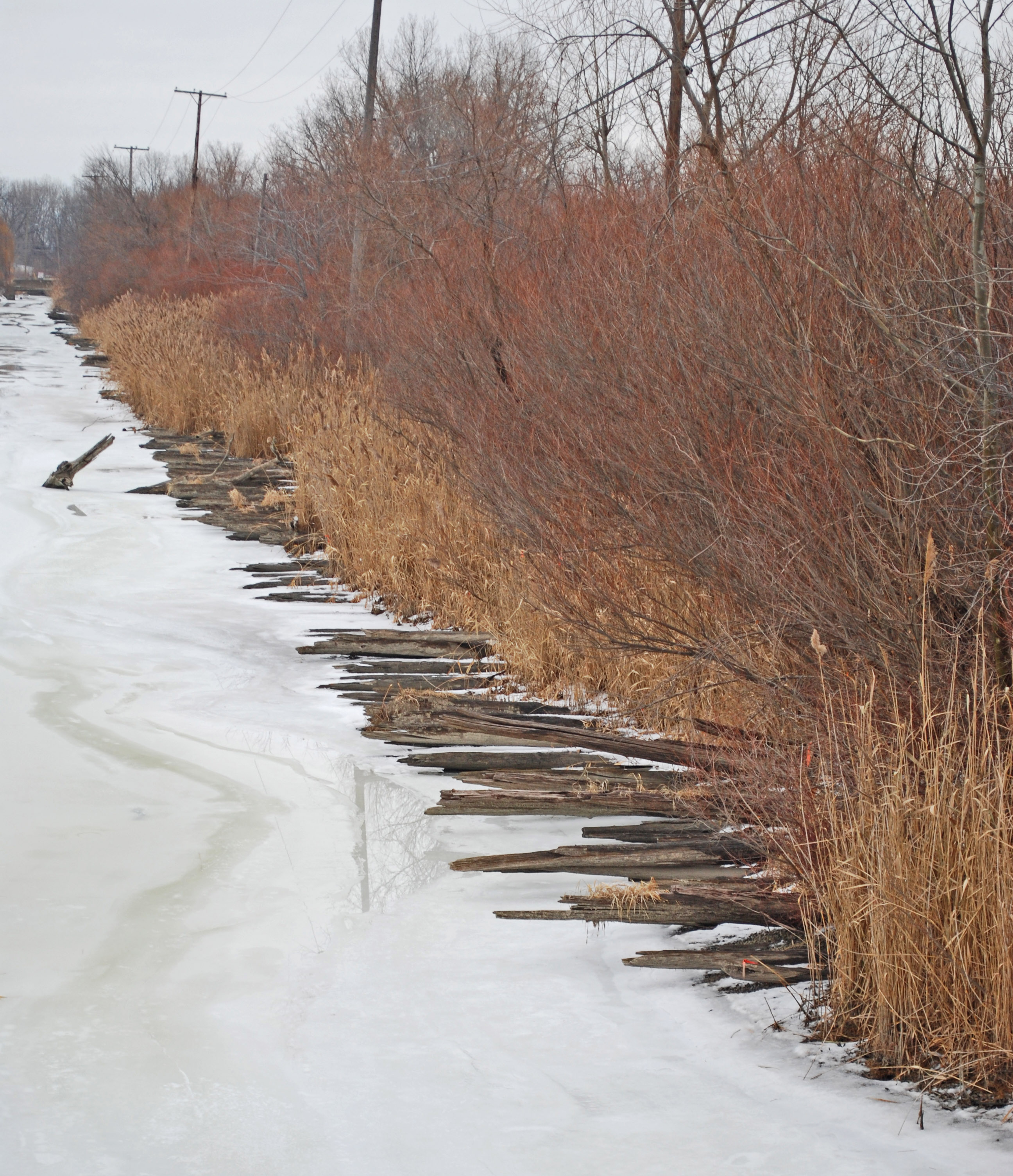 Remains of Corduroy Section of Hulls Trace, southern Wayne County MI